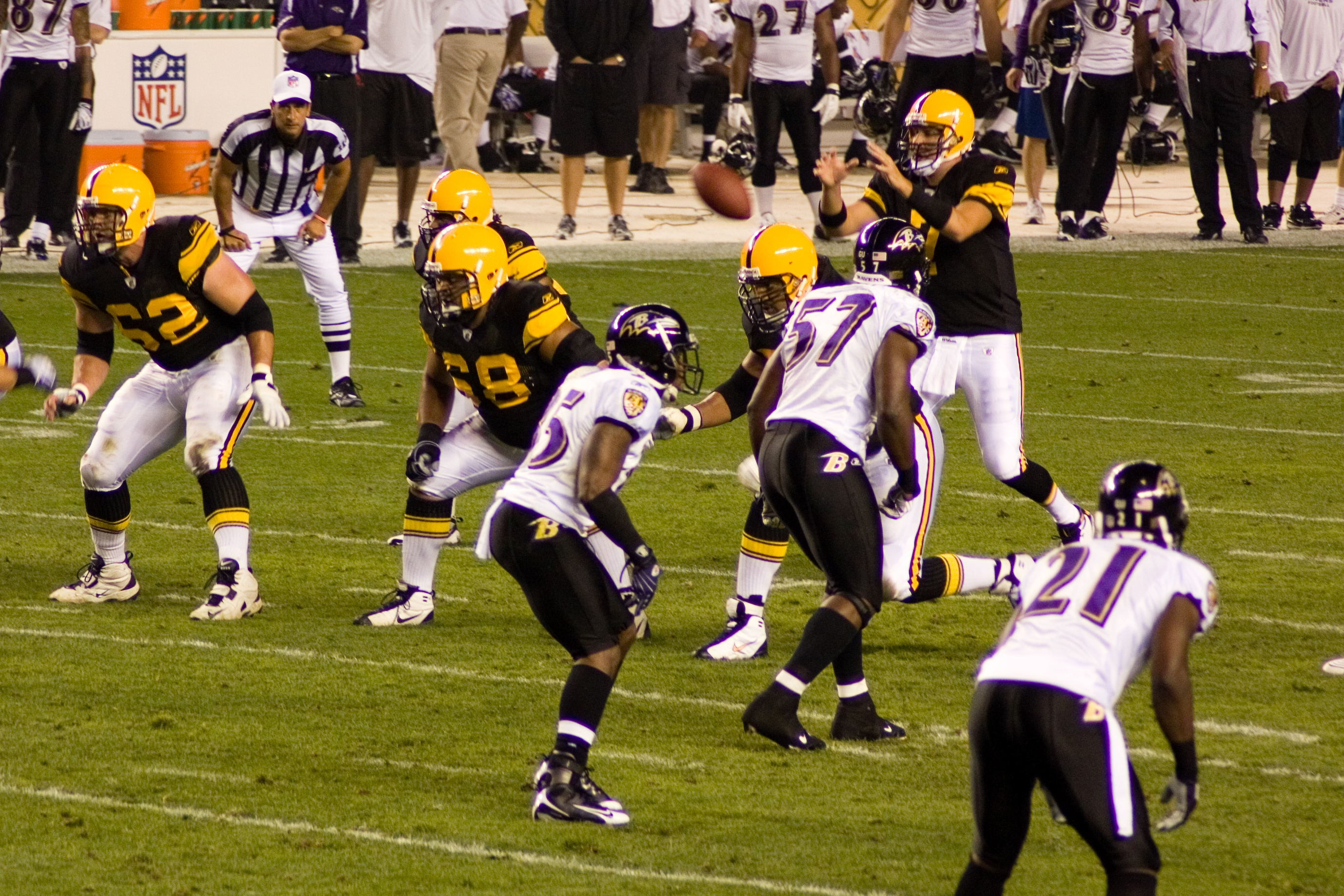 The Pittsburgh Steelers lineup against the Baltimore Ravens